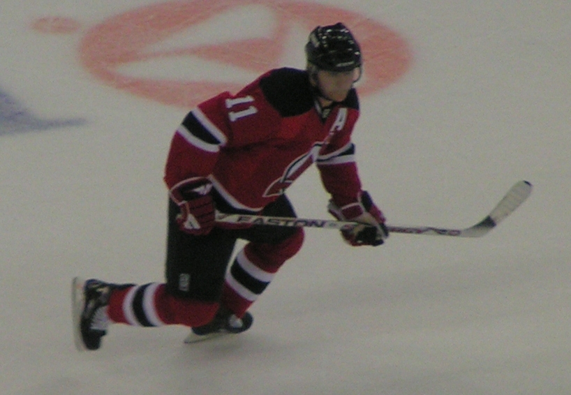 John Madden plays a homegame against Washington